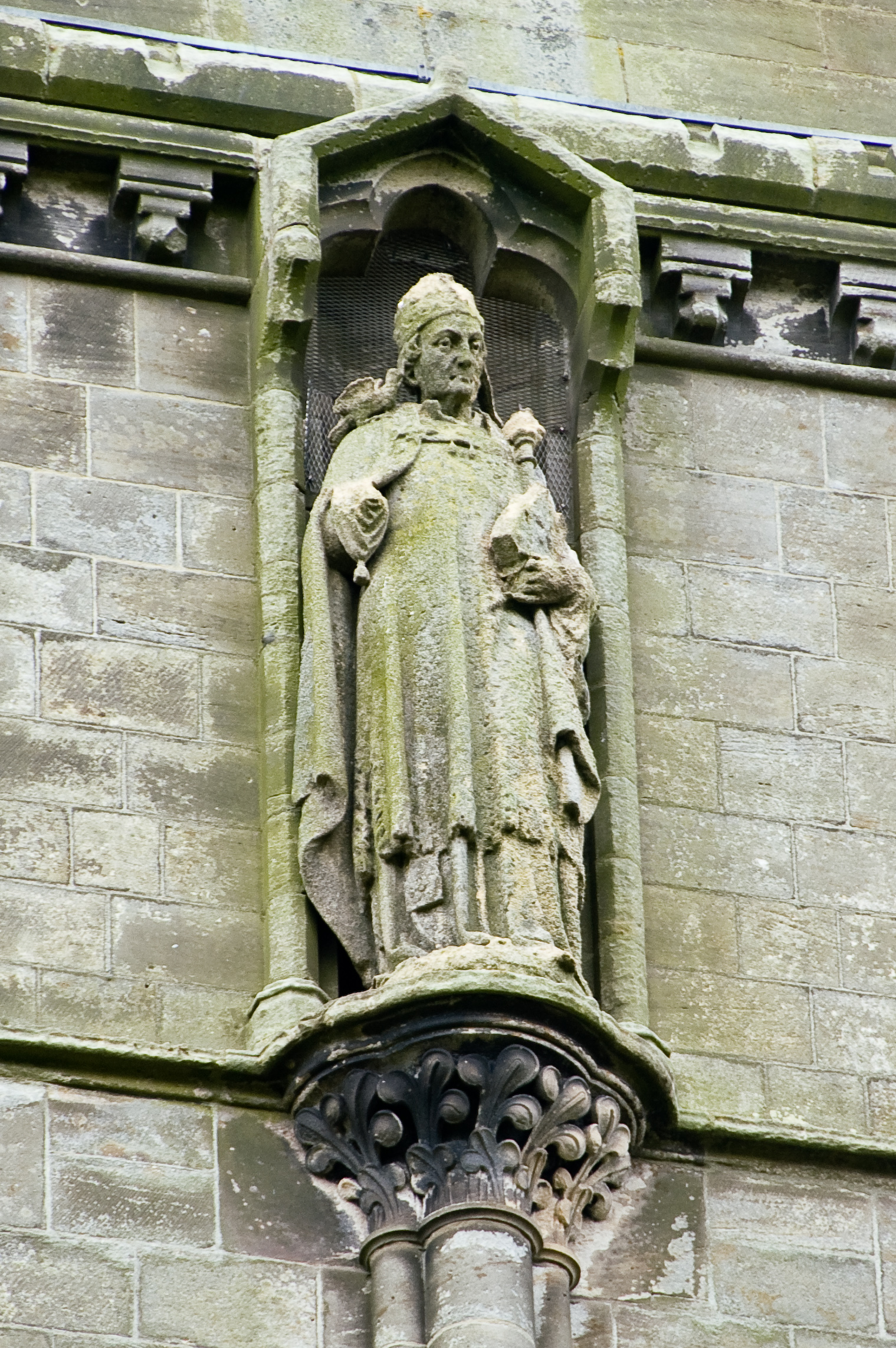 One of four statues of the Latin Fathers, sculpted by James Redfern for Bristol Cathedral. Rejected as being too 'papist', they were rescued by George Edward Street and placed on the tower of this church. James Redfern from the church in East Heslerton, Yorkshire. James Frank Redfern (1838-1876), sculptor, was born at Hartington, Derbyshire, in 1838. As a boy he showed a taste for art by carving and modelling from the woodcuts of illustrated papers. At the suggestion of the vicar of Hartington, he executed in alabaster a group of a warrior and a dead horse. This was brought to the notice of Alexander Beresford-Hope, on whose estate Redfern was born. Hope sent him to Paris to study for six months. His first work exhibited at the Royal Academy, Cain and Abel (1859), attracted the notice of John Henry Foley. He exhibited a Holy Family in 1861, The Good Samaritan in 1863, and other subjects almost every year until his death. These were at first chiefly of a sacred character, and afterwards portrait statues. His larger works were principally designed for Gothic church decoration.